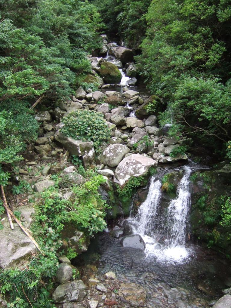 Mikurajima